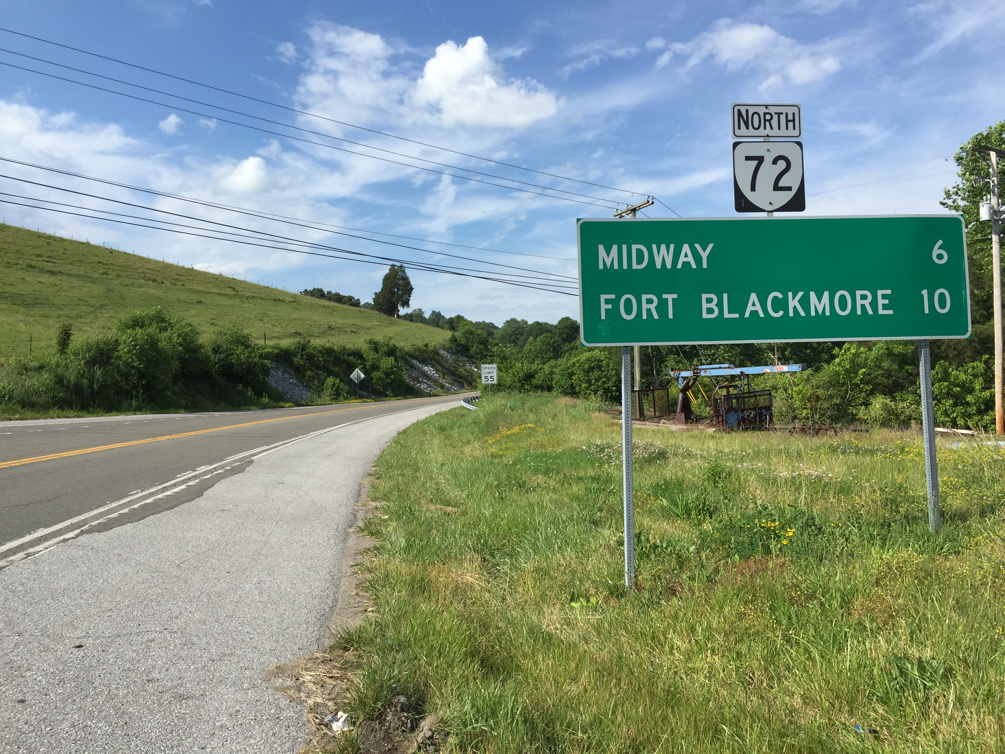 View north along Virginia State Route 72 (Veterans Memorial Highway) at Virginia State Route 71 (Nickelsville Highway) in Gate City, Scott County, Virginia